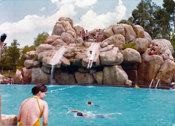 Disney's River Country attractions, Slippery Slide Falls and Upstream Plunge.